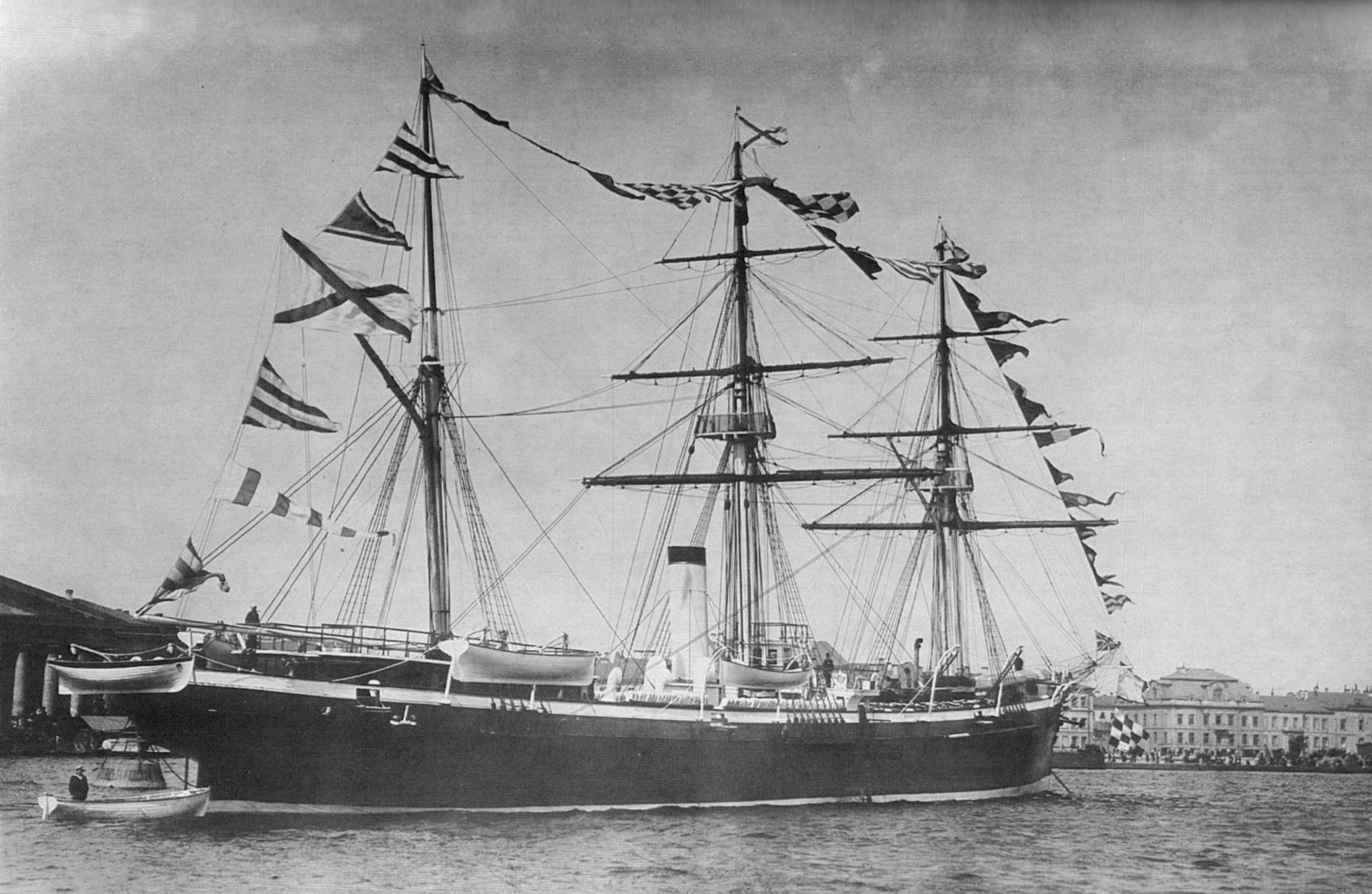 Imperial Russian cruiser Azia (until may 1878 - Columbus, Oct. 1912 - 11 Sep. 1914 - Kavkaz).